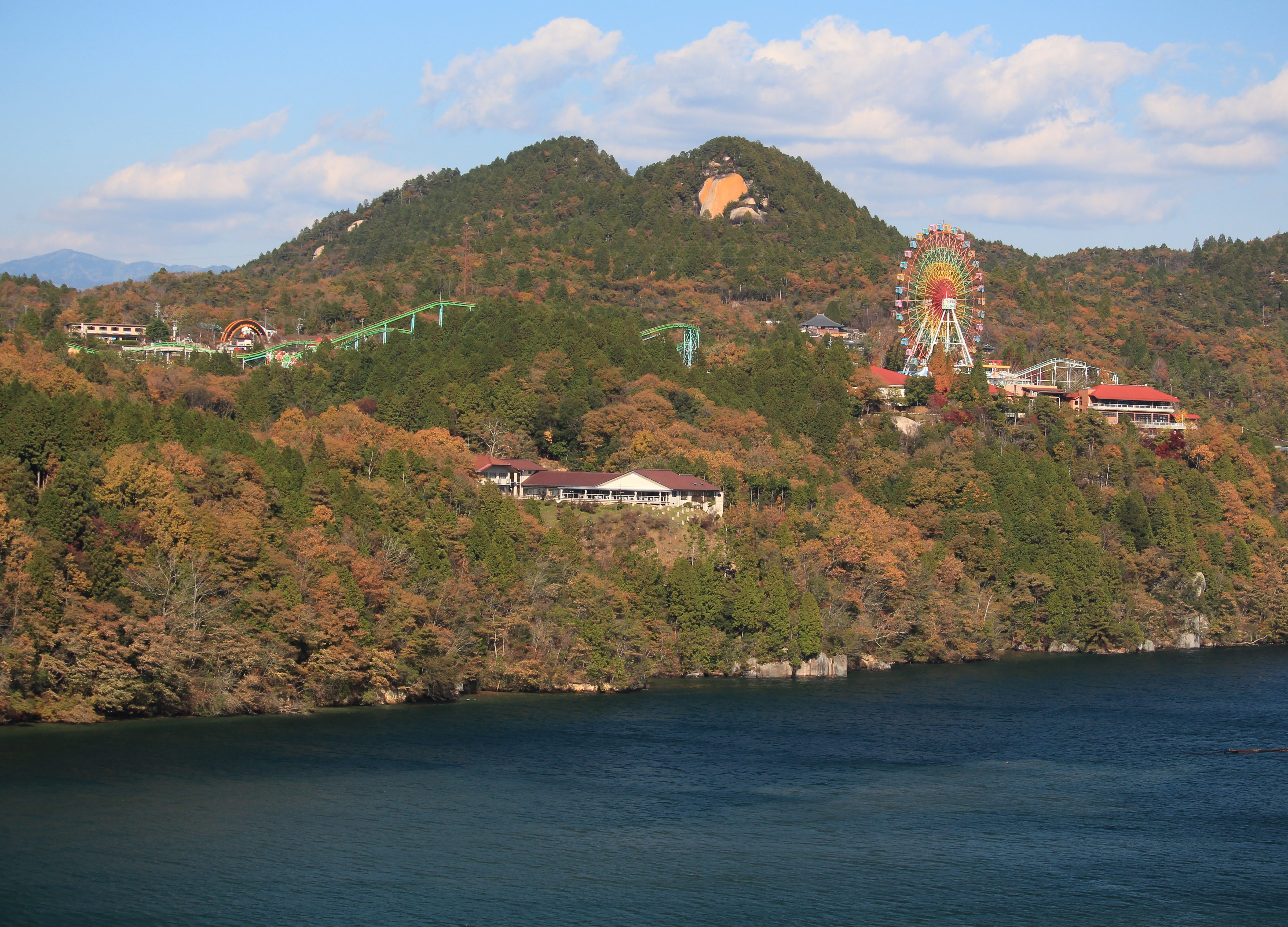 Enakyo wonderland in Nakatsugawa, Gifu Prefecture, Japan.